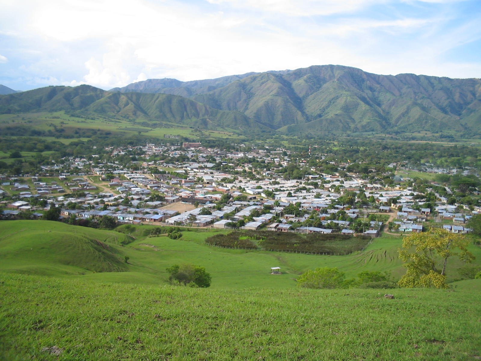 General view of Algeciras, Columbia